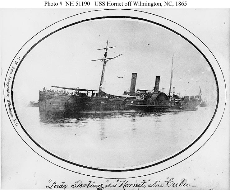 USS Hornet, built in 1864 as CSS Lady Sterling, decommissioned in 1865 and later renamed Cuba